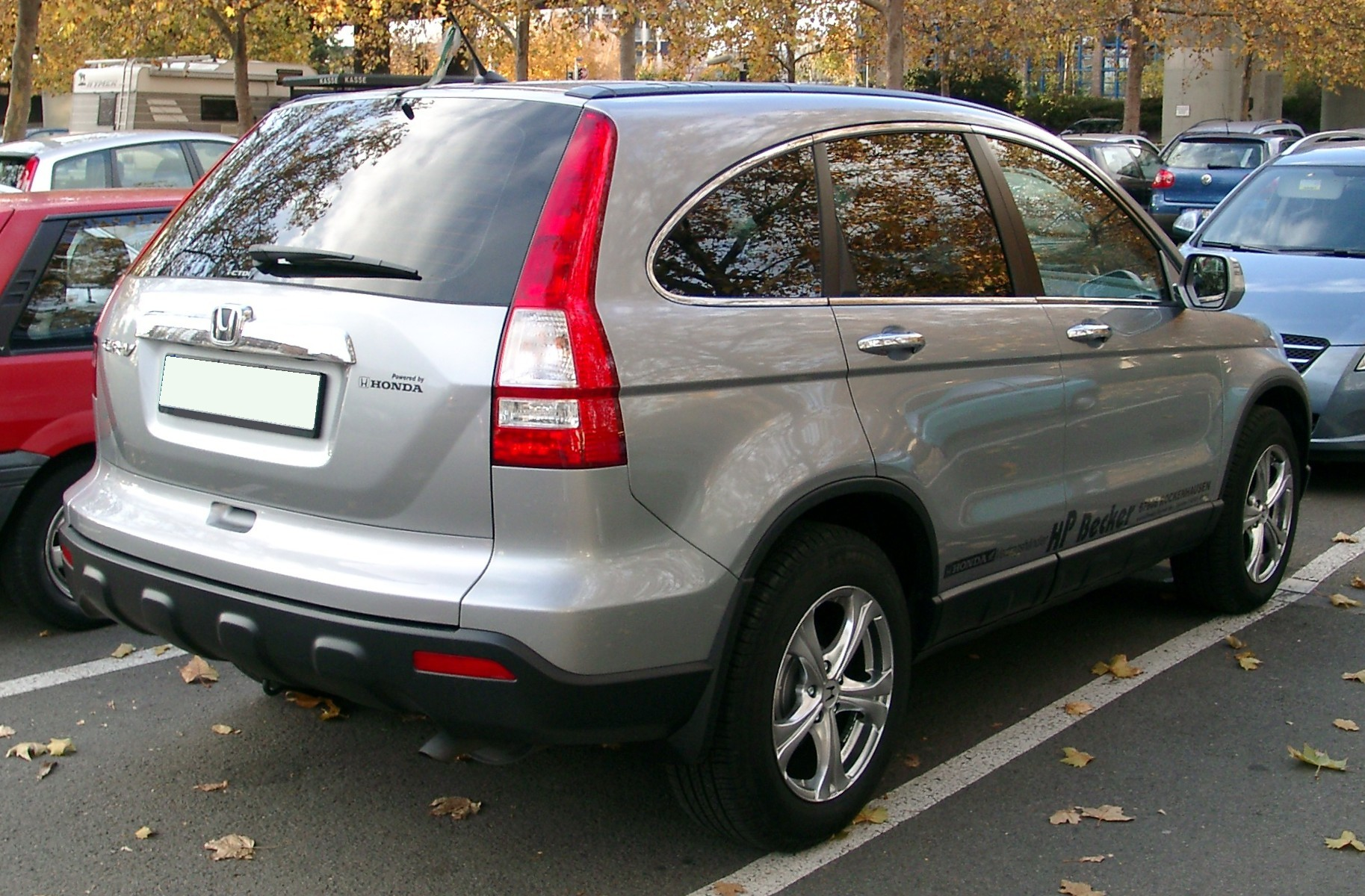 Honda CR-V, 3. Generation